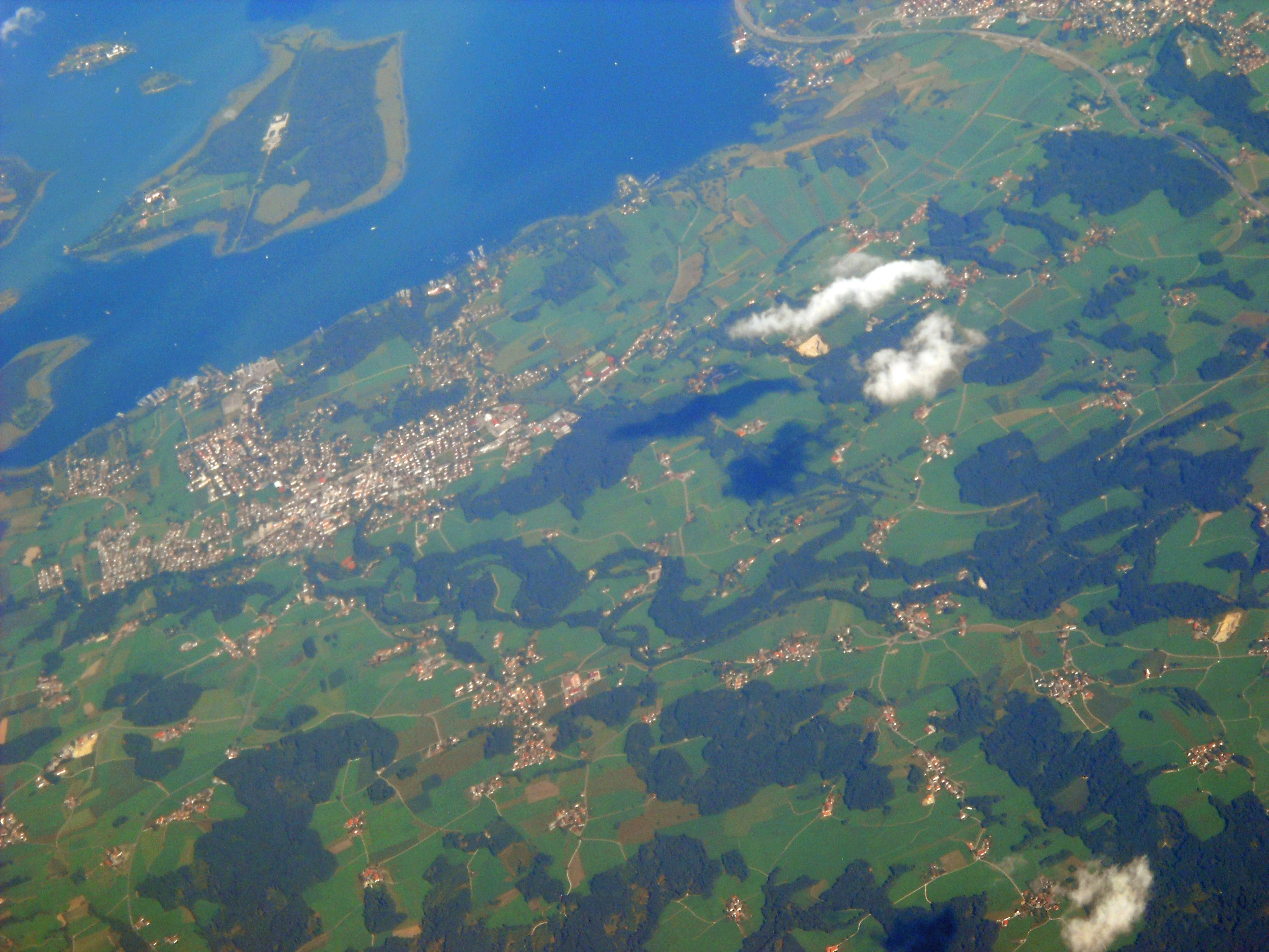 Aerial view of Prien Chiemsee, with island Herrenchiemsee